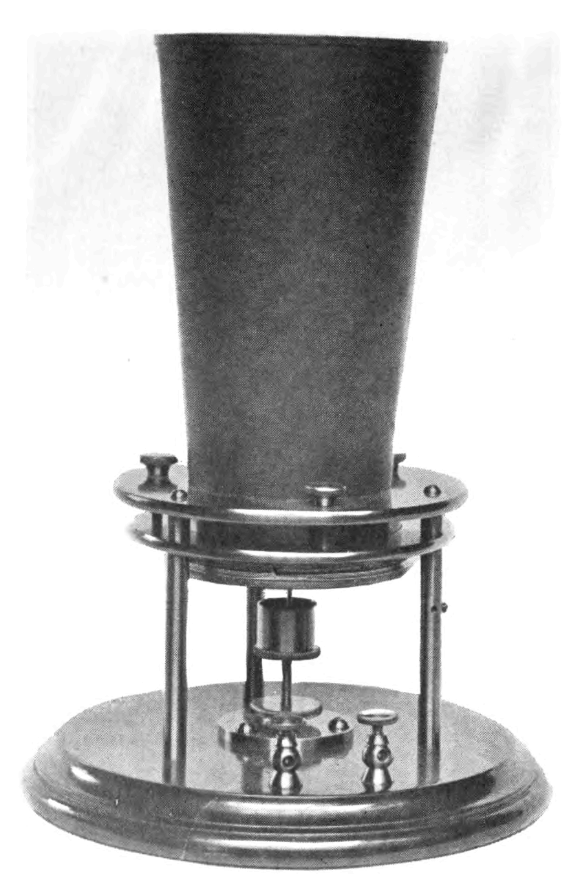 Liquid telephone transmitter (microphone) invented by US scientist Alexander Graham Bell around 1876. One of the earliest experimental microphones, Bell wired it to a battery and a crude earphone device to make experimental telephones. It was one of the first microphone devices that could transmit intelligible speech. Competing scientist Elisha Grey had submitted a patent claim for a similar liquid transmitter February 14, 1876, almost the same time that Bell was inventing his device, and there is some evidence that Bell may have stolen the idea from Gray. It quickly became obsolete and was not used in any practical telephones. A fine wire extends down from the middle of a parchment diaphragm stretched over the bottom of the black mouthpiece (top). The end of the wire dips into the surface of water in the small brass cup under the mouthpiece. The water has been made conductive by adding a little acid. When someone speaks into the mouthpiece, the diaphragm vibrates up and down, causing a greater or lesser length of wire to make contact with the water, changing the resistance. The binding posts at bottom are connected to the brass cup and wire, and a current from a battery is passed through them. The vibration of the needle causes the resistance to vary, causing a varying current to pass through the circuit. A speaker connected in the battery circuit responds to the varying current by reproducing the original sounds. Information from Liquid transmitter, Antique Telephone History]